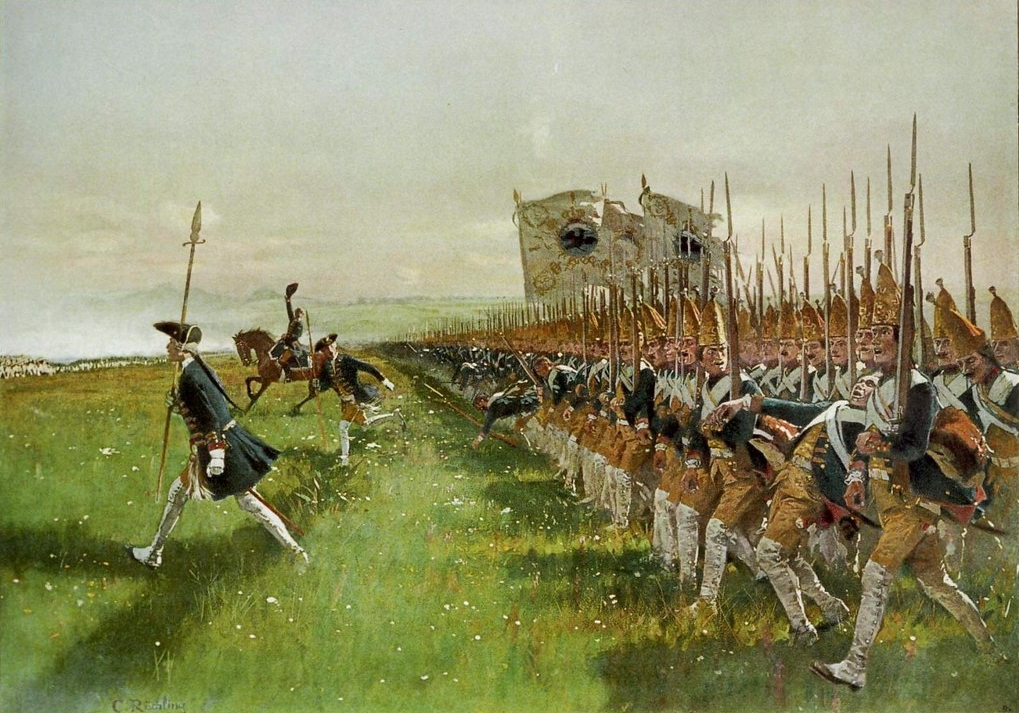 Hohenfriedeberg, Battle of Hohenfriedeberg, Attack of Prussian Infantry, June 4th, 1745 - shown "Potsdam Giants" Grenadier Guards Batallion (1806: No. 6)